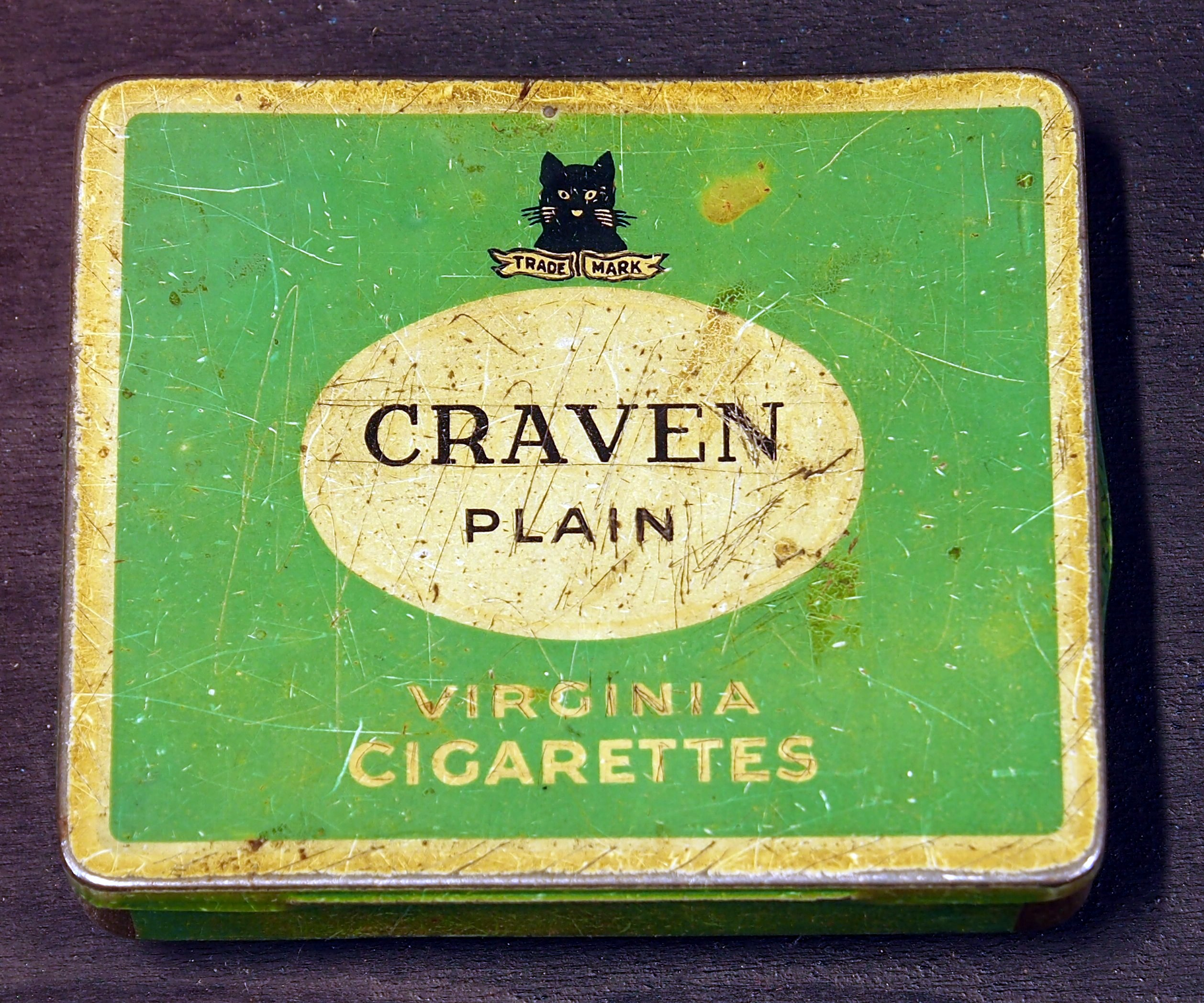 Old product not sold anymore!